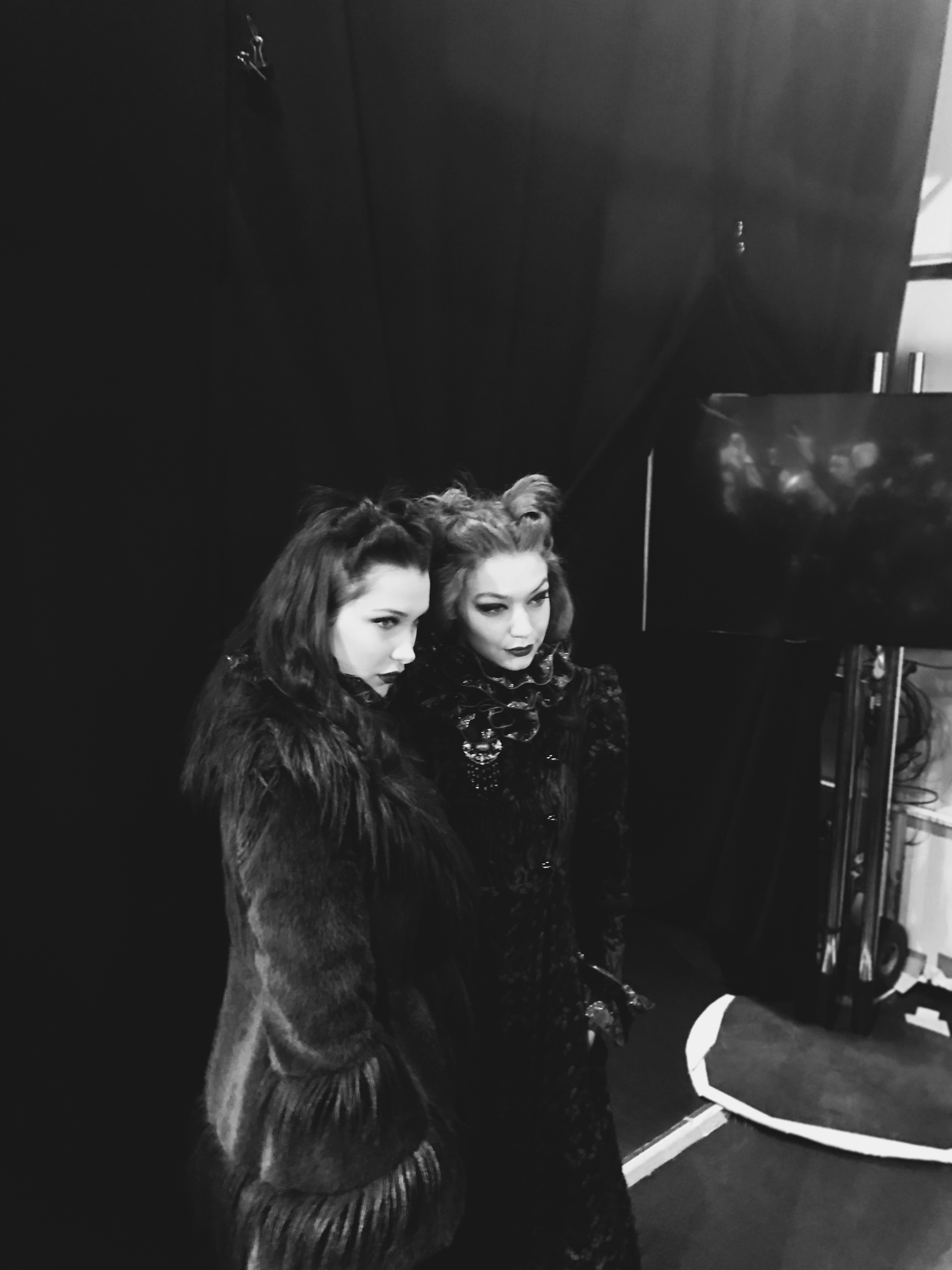 Bella Hadid and Gigi Hadid pose for cameras backstage at the Anna Sui Fall Winter 2017 show at New York Fashion Week, Skylight Clarkston Square, February 15, 2017.